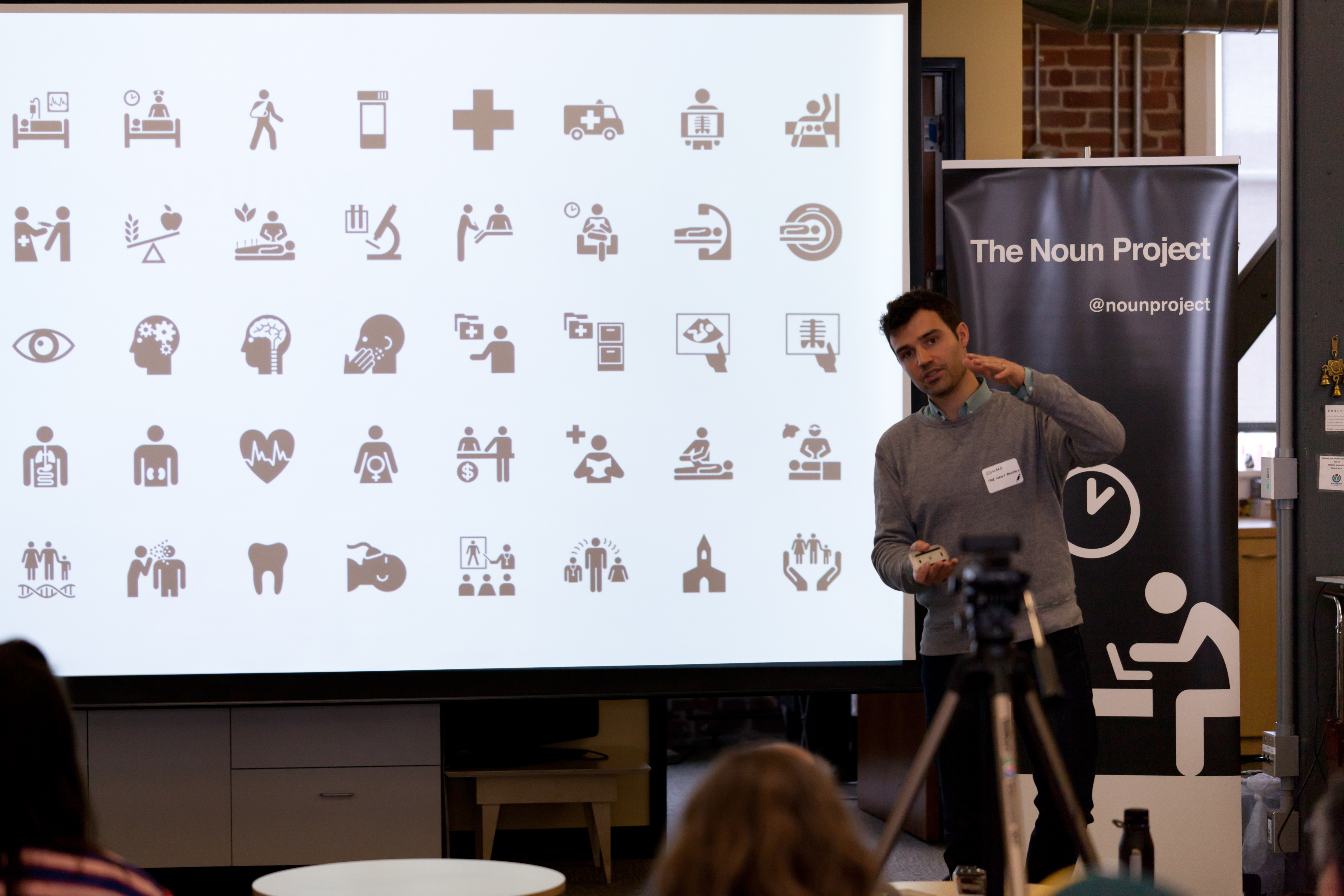 The Wikimedia Foundation and the Noun Project hosted an Iconathon on April 6 2013 with designers in the San Francisco Bay Area to create a number of freely licensed icons related to Wikipedia.